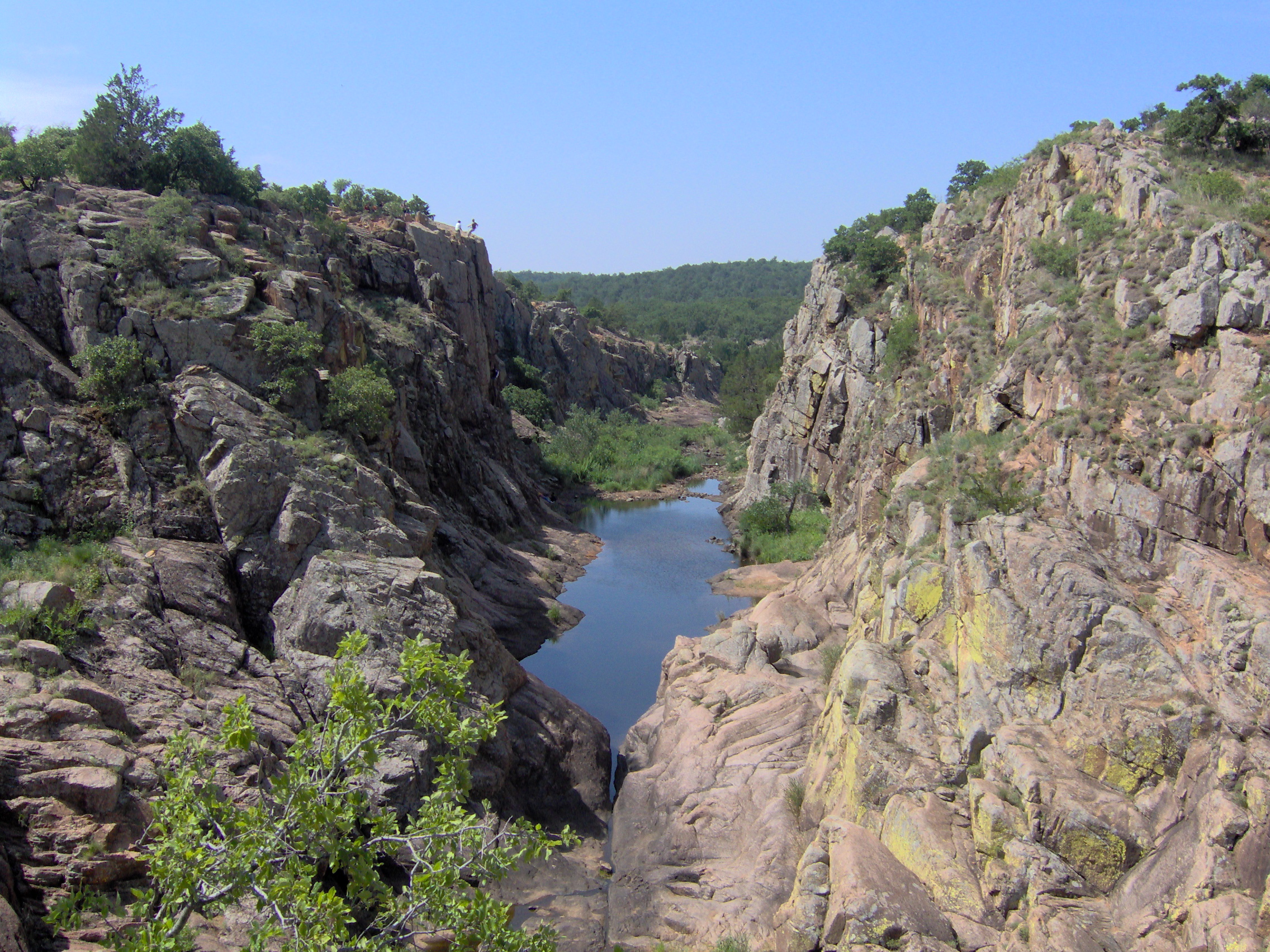 View through a small canyon in the Wichita Mountains of Oklahoma. Picture taken by Nyttend on 8 July 2006.